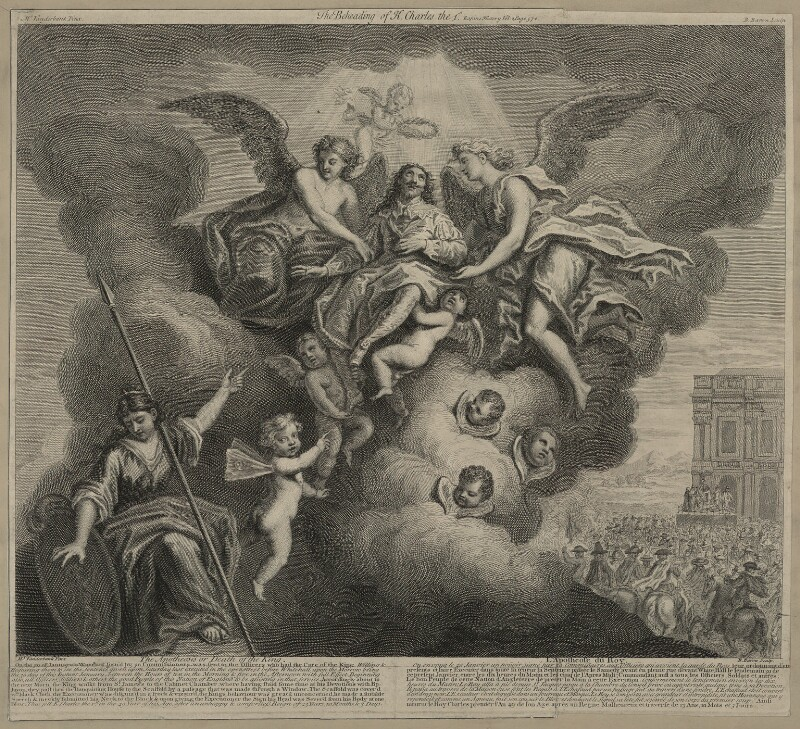 The Apotheosis, or, Death of the King is a 1728 line engraving by French engraver Bernard Baron (1696-1762). It reflects dominant view of the Church of England of Charles I as christian martyr. In the foreground, Charles is taken to heaven by a group of angels while Britannia looks down in shame. In the background, Charles has been executed and the crowd is in an uproar.